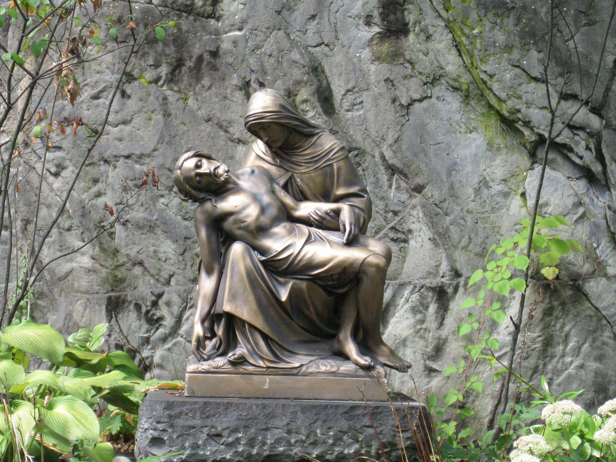 Marist Pietà Grotto